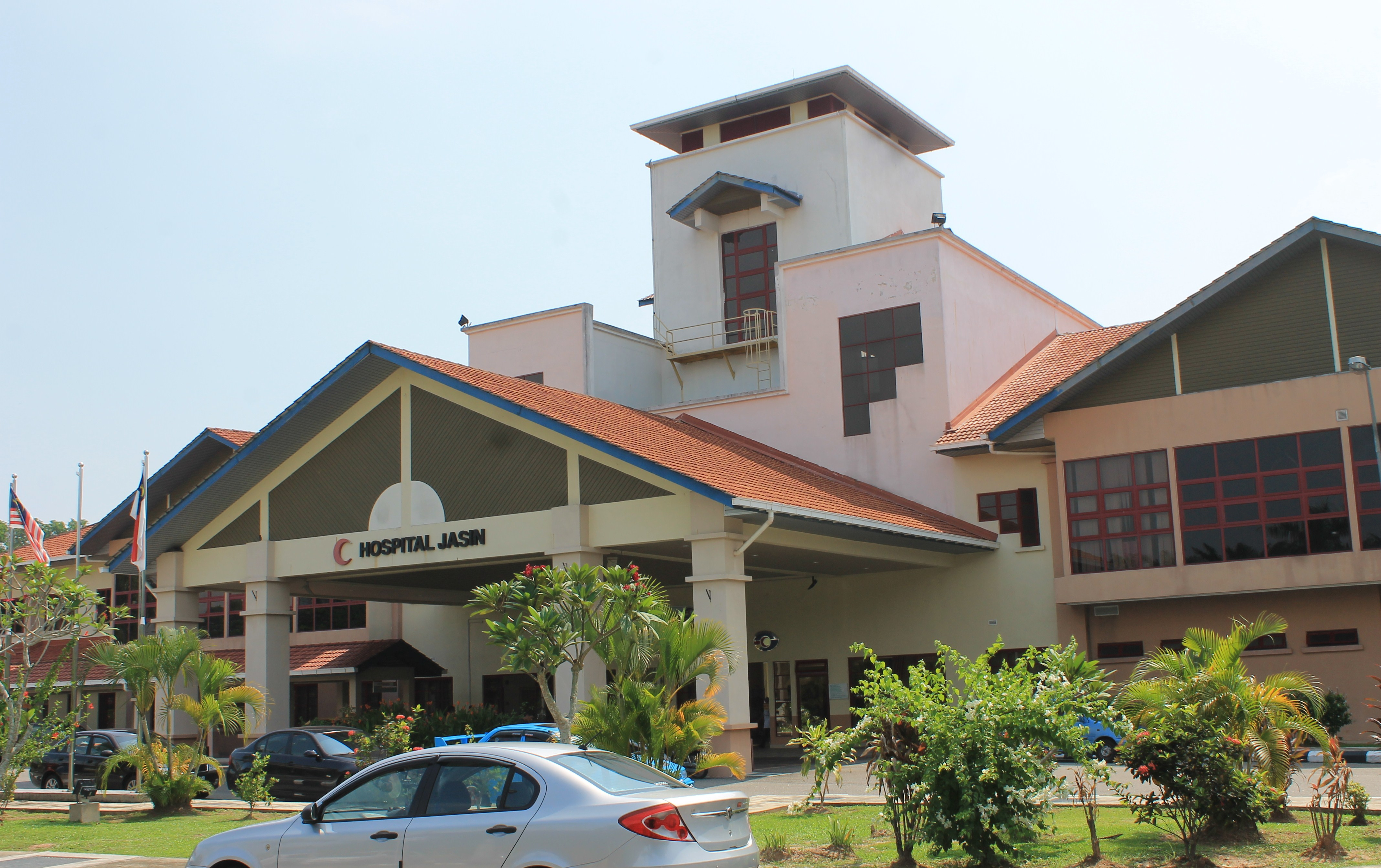 The main building of Jasin District HospitalBahasa Melayu: Bangunan utama Hospital Daerah Jasin